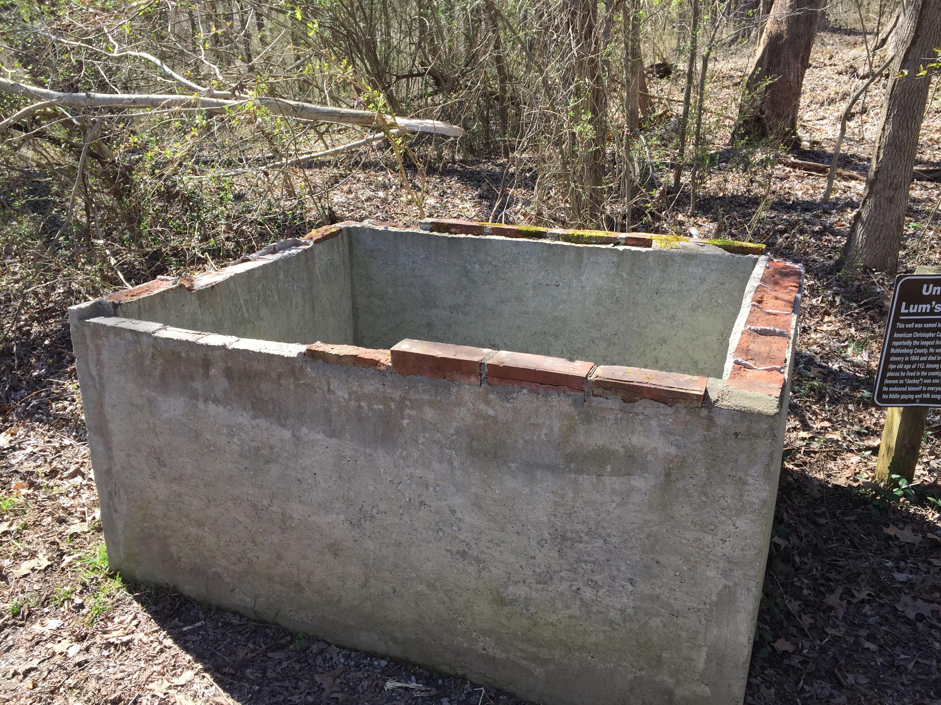 well photo